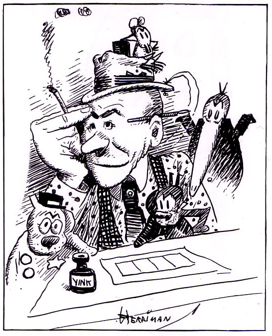 Self-portait of American cartoonist George Herriman from Judge magazine's October 21, 1922, issue.